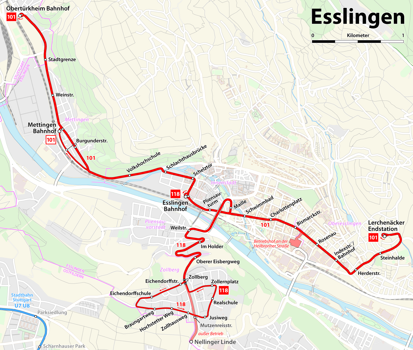 Map of the Esslingen trolleybus network 2010